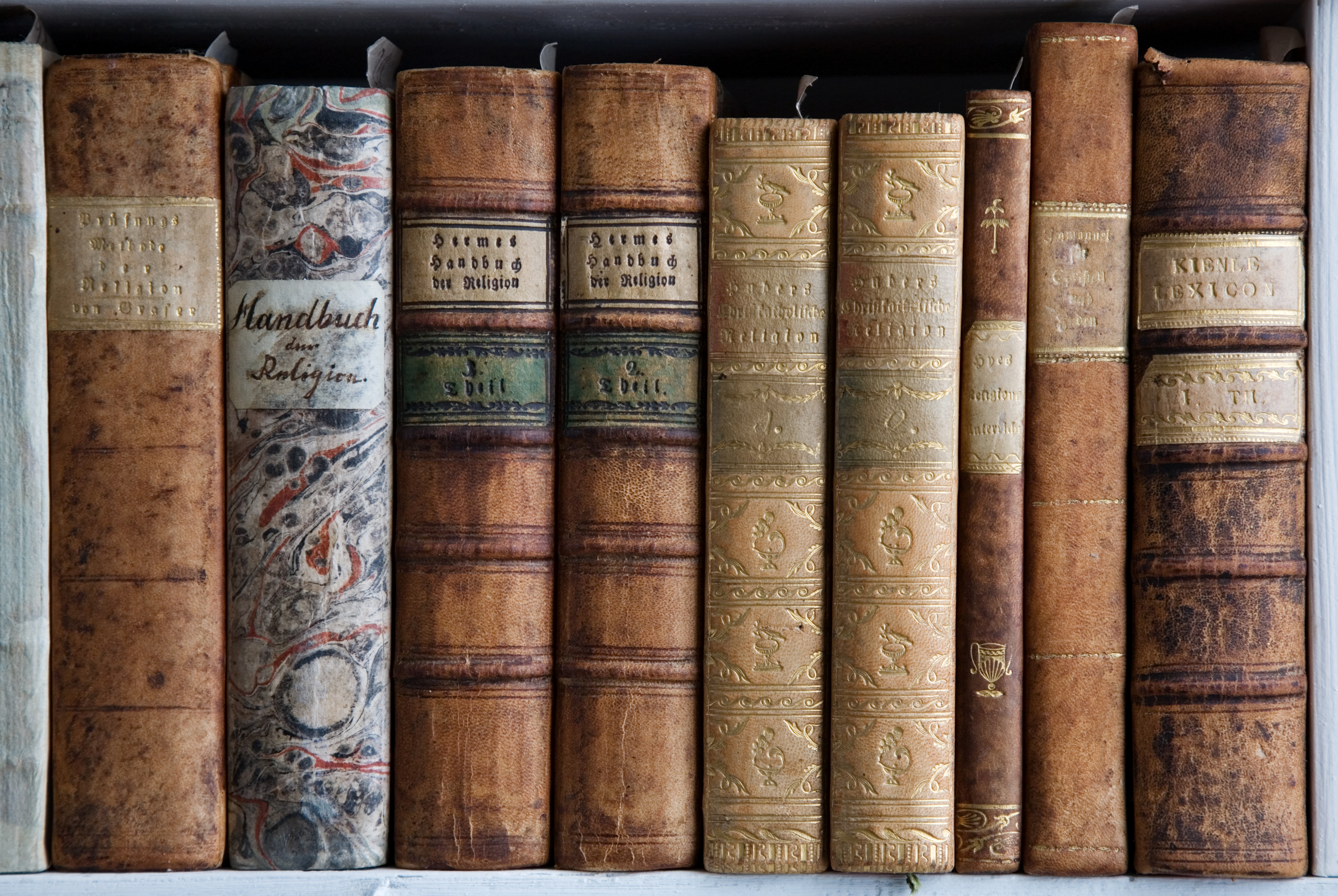 Books and bookshelves. Admont Abbey Library, Austria